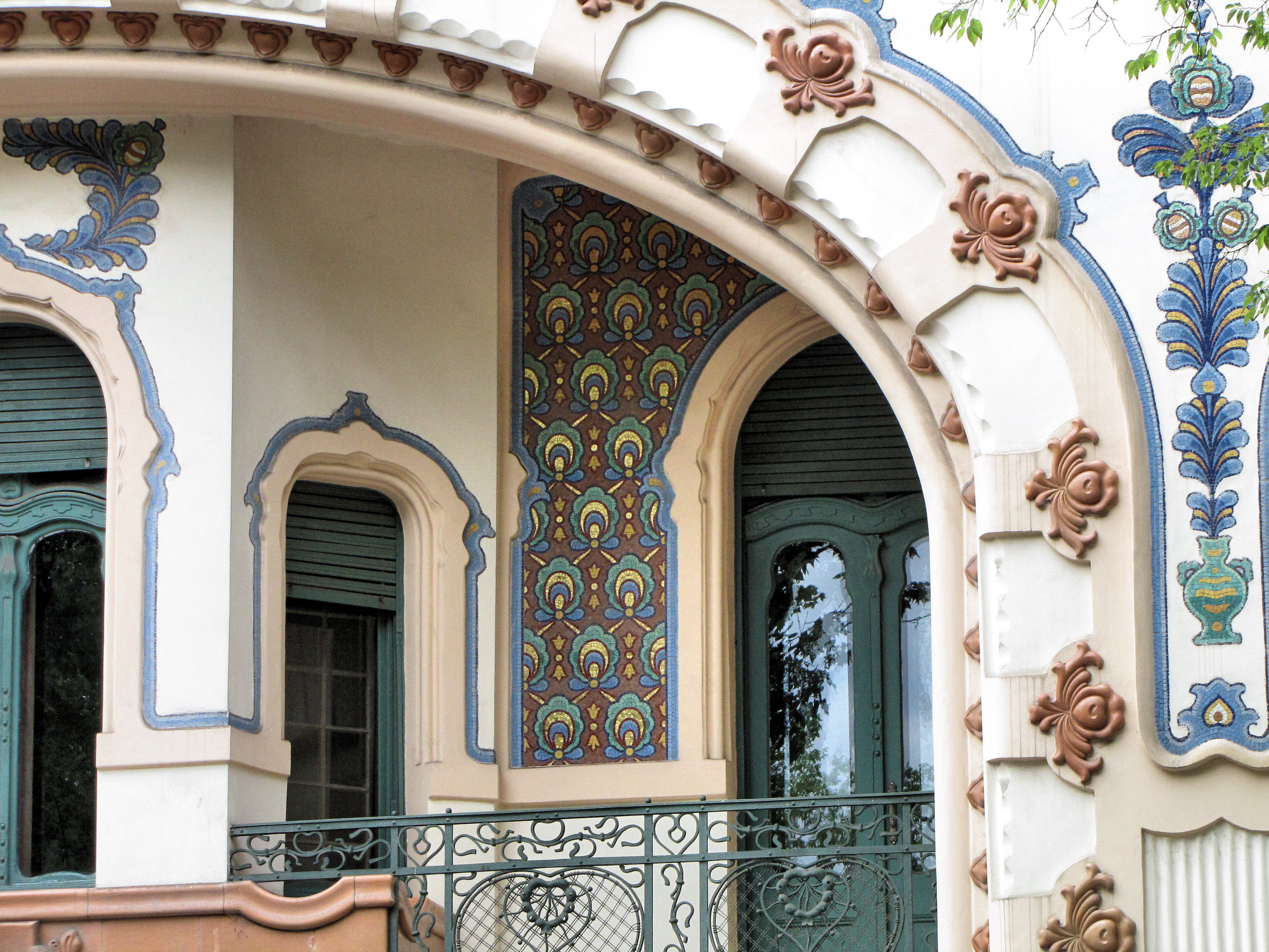 Detail of the Raichle Palace, Subotica, Serbia. Built in 1904 by Ferenc Raichle (Raichl) to himself.